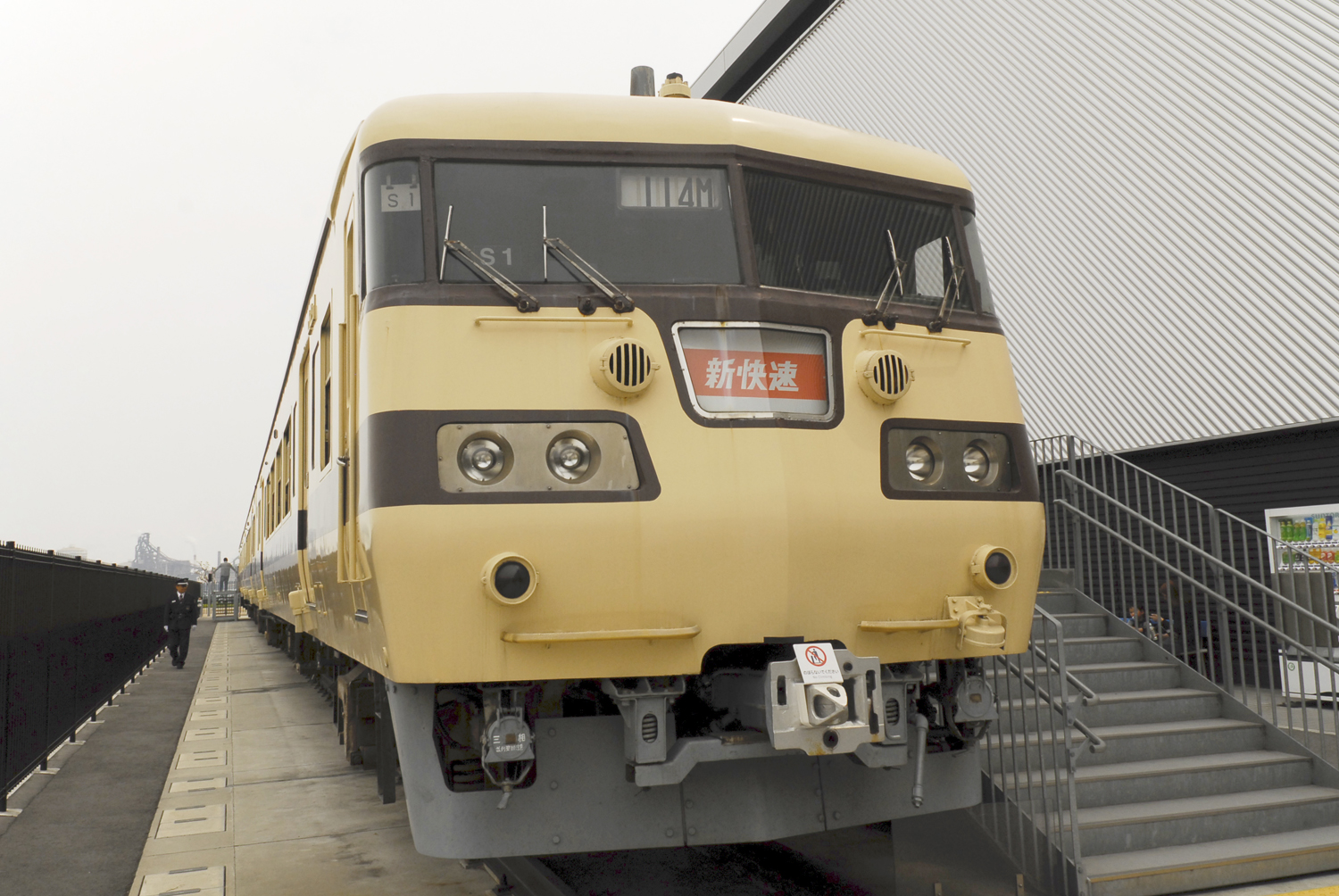 Preserved 117 series EMU cars at the SCMaglev and Railway Park in Nagoya, Japan